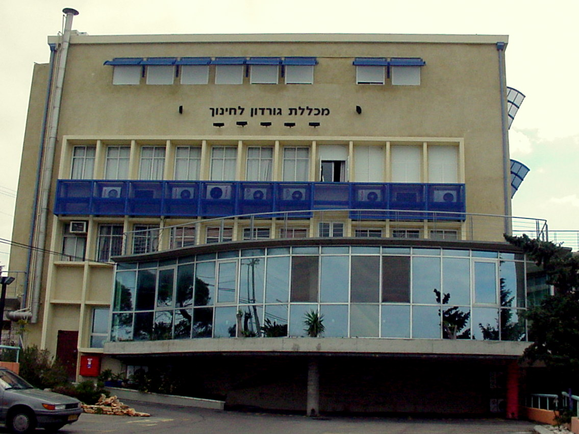 Front of the main building of Gordon College, at the French Carmel neighborhood, Haifa